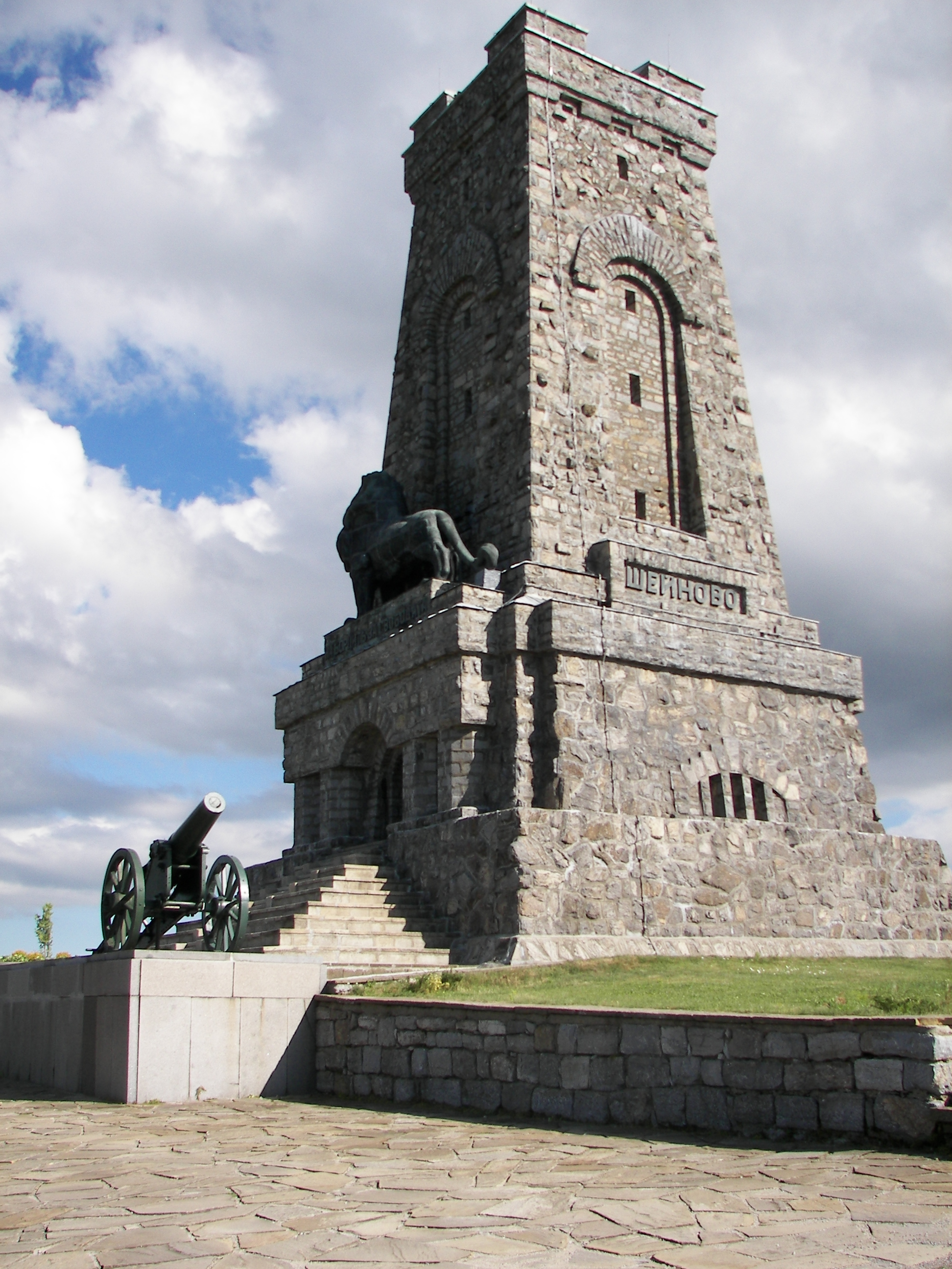 Shipka